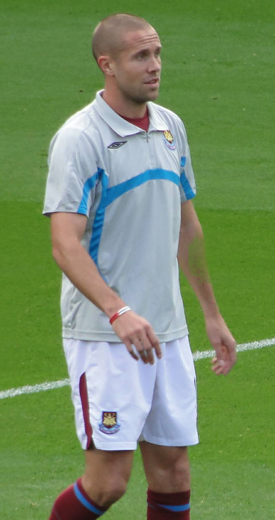 West Ham player Matthew Upson warming up before West Ham's home game against Fulham.